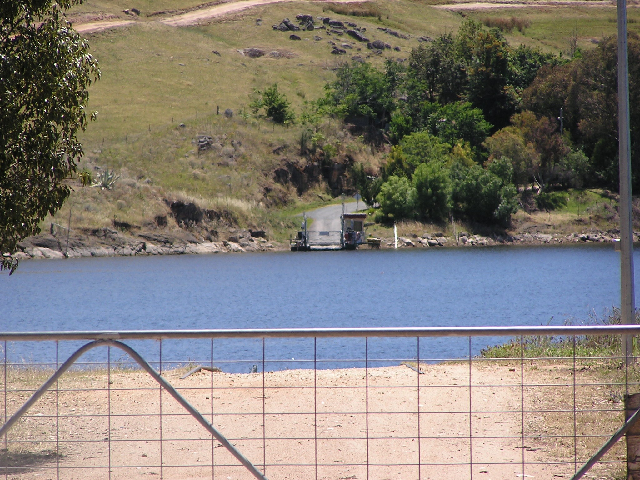 Wymah Ferry - (lunch break : - across the Murray Arm of the Hume Dam/Lake Hume, Australia Picture taken by AYArktos December 2005